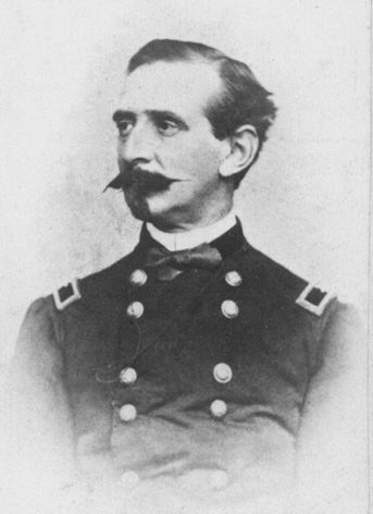 Felix Salm-Salm (1828–1870) in Union Army uniform